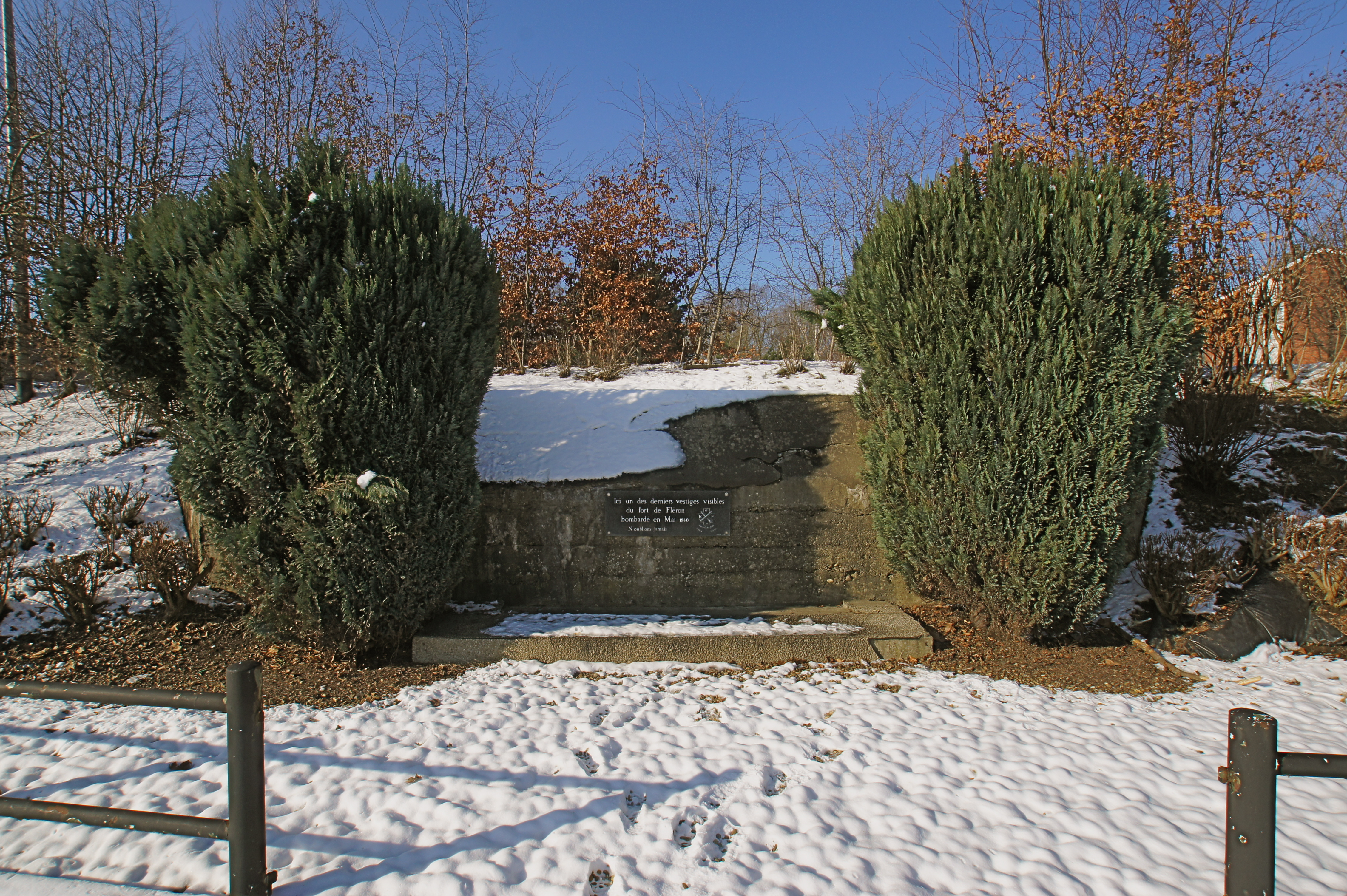 Fléron, Belgium: one of the last remaining visible rests of the fort of Flémalle